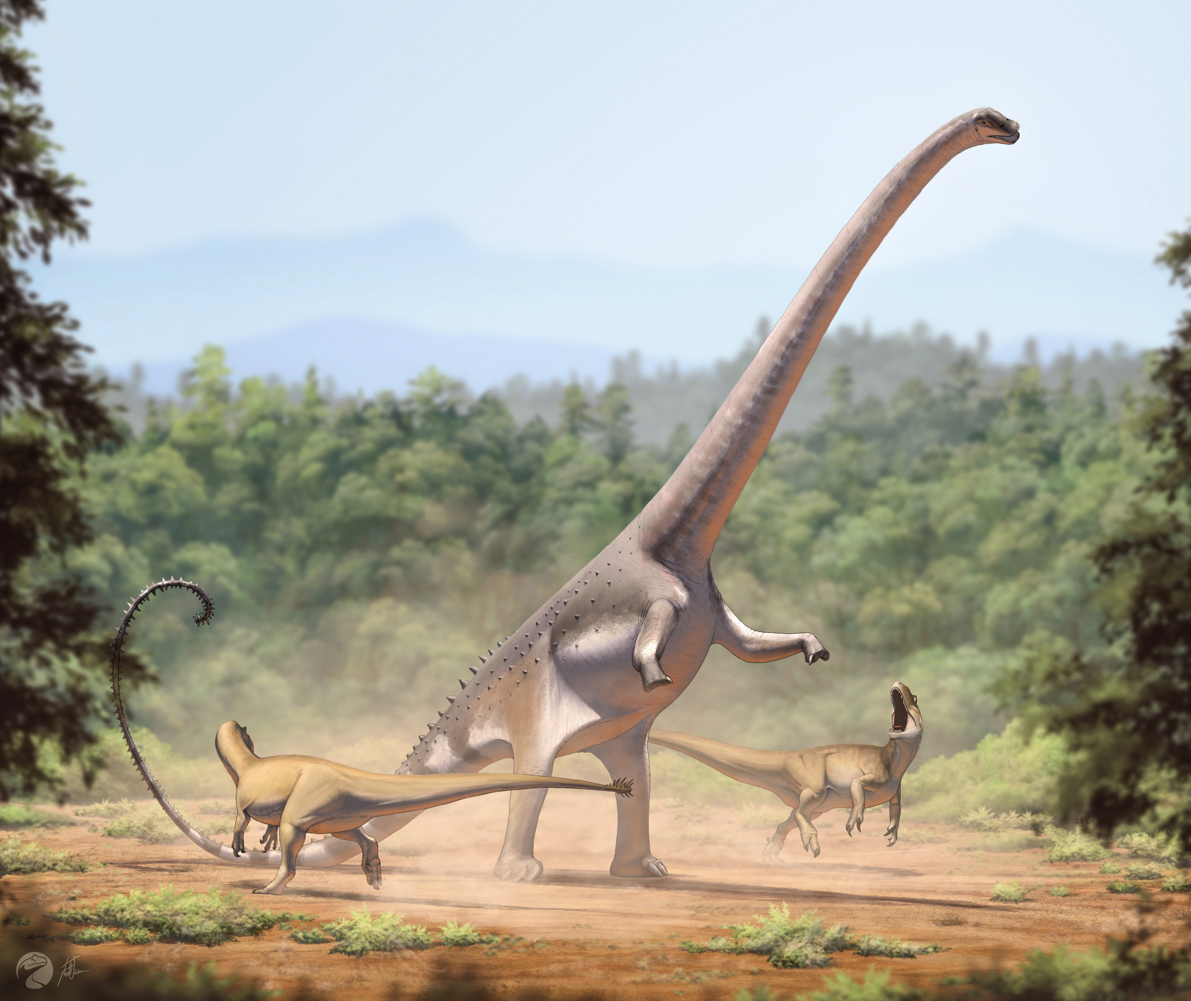 Barosaurus lentus defending itself from a pair of Allosaurus fragilis.